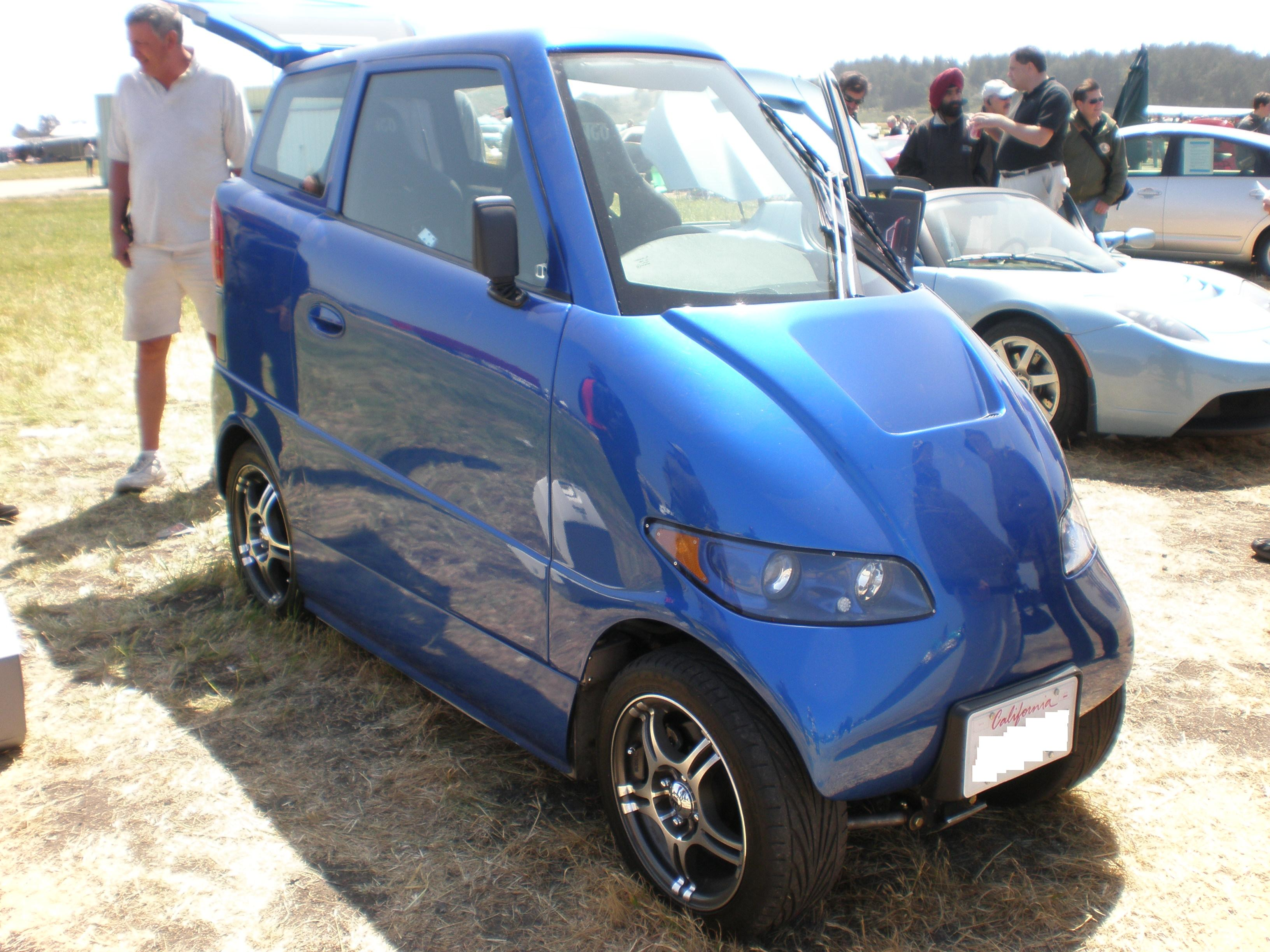 A Tango T600 at the Pacific Coast Dream Machines 2009 vehicle show at the Half Moon Bay Airport in Half Moon Bay, California.